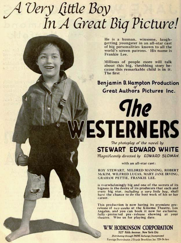 Ad for the American film The Westerners (1919) with Frankie Lee, on page 1872 of the June 28, 1919 Moving Picture World.